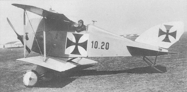 Photo of Lohner 10.20A Type AA 111.01 (D.I - third version), crashed 6 June 1917